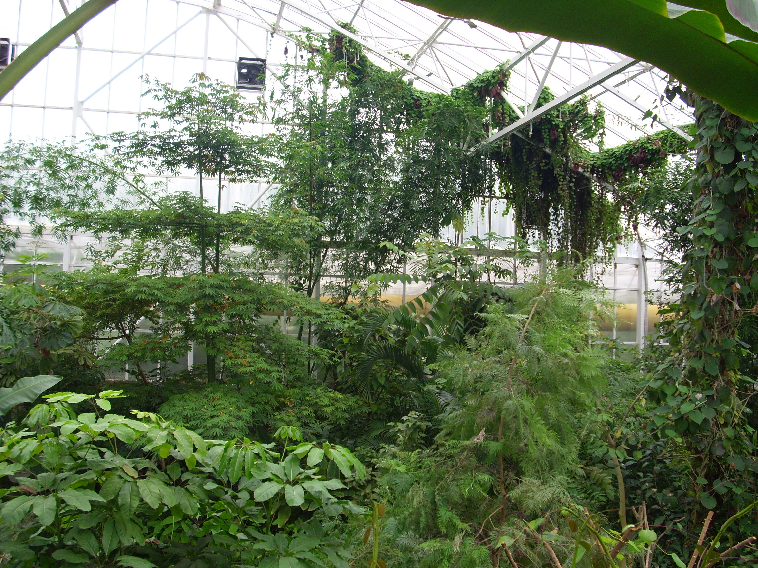 greenhouse of ? in Botanical garden in Teplice